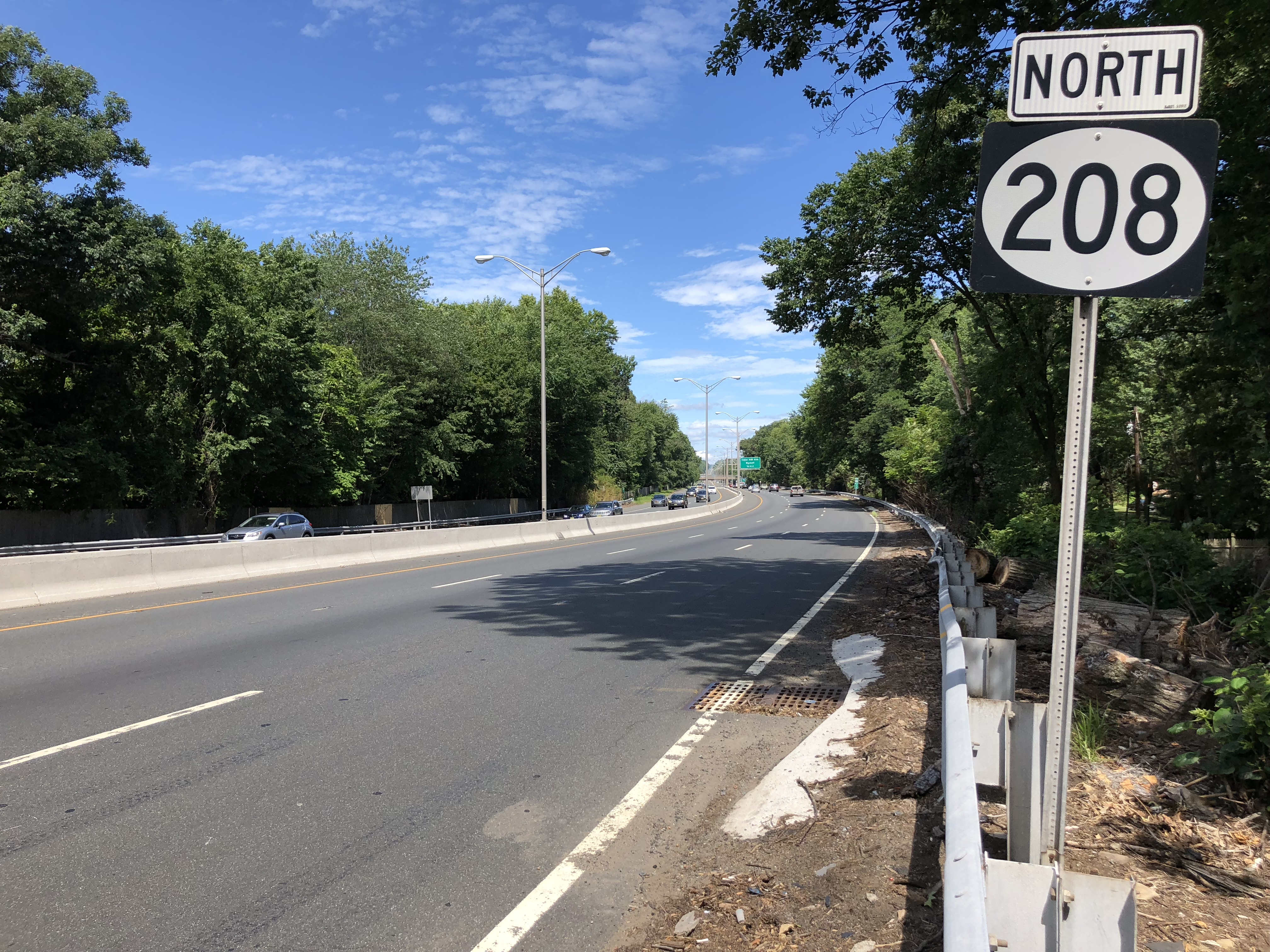 View north along New Jersey State Route 208 just north of Grandview Avenue in Wyckoff Township, Bergen County, New Jersey